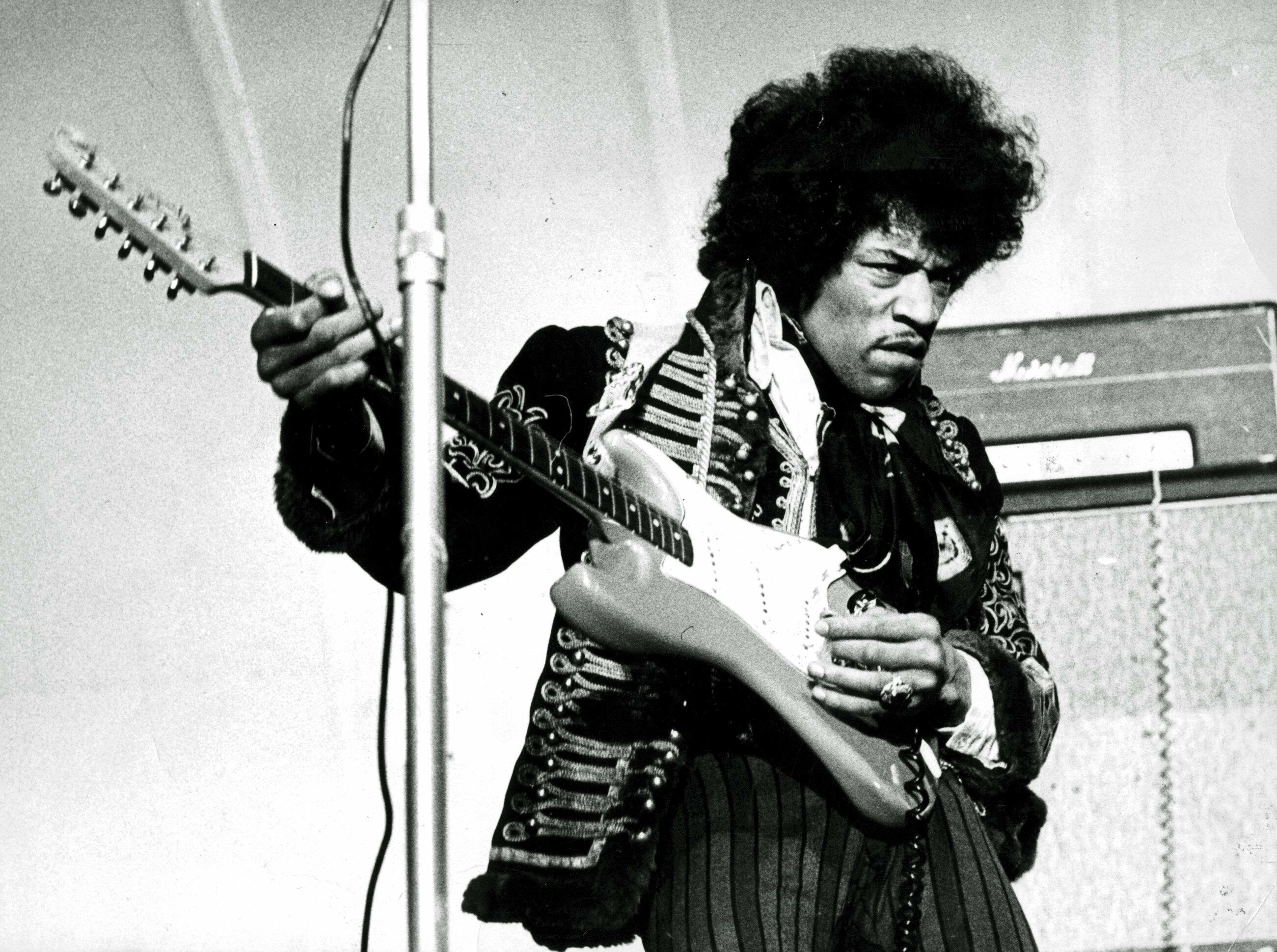 Jimi Hendrix at the amusement park Gröna Lund in Stockholm, Sweden, May 24, 1967.